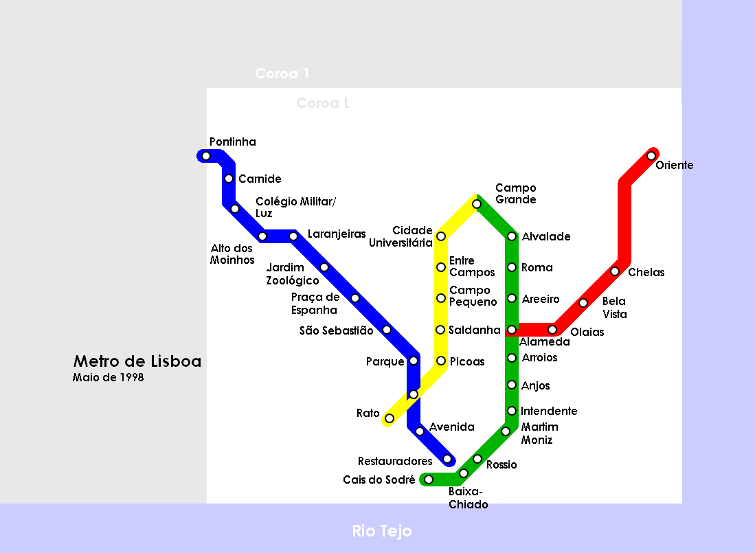 Map of Lisbon Metro in May 1998